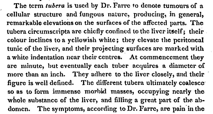 Taken from page 3 of the PDF file shown in the source link, showing how spellings such as "tumours" and "colour", which are today considered to be British/Commonwealth spellings, were used in early American publications. This one dating from 1814.